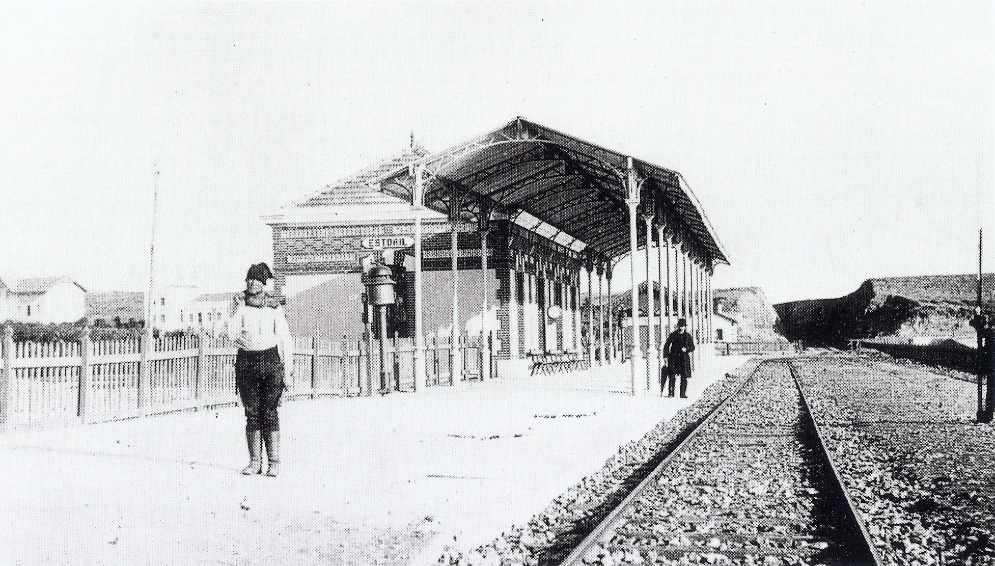 Estoril train station, in the Cascais Railway, in Portugal. This photograph was taken before the electrification of the line, in 1926.